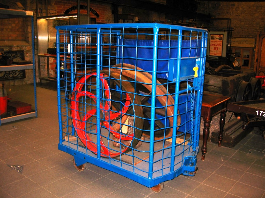 A BRUTE (British Rail Universal Troley Equipment) trolley in the railway museum at Swindon.